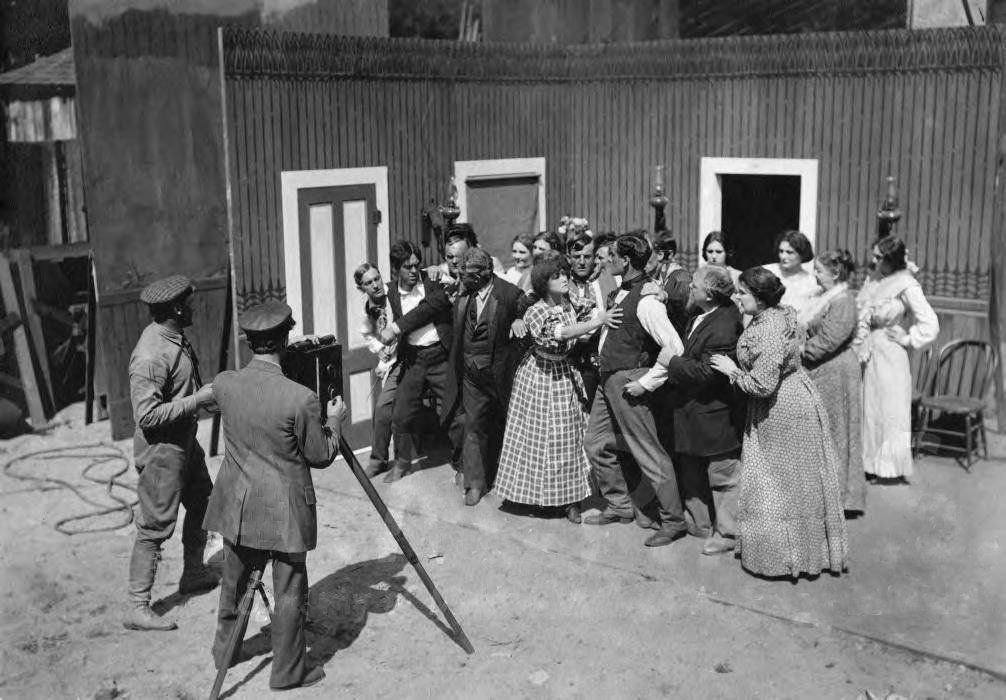 Francis Boggs, back to camera, directs a scene for THE GIRLS OF THE RANGE, 1910. Vintage print. 4 1/2 x 6 3/4 b&w photographic print. This version has had the watermark muted (as is policy) with other slight tweaks.